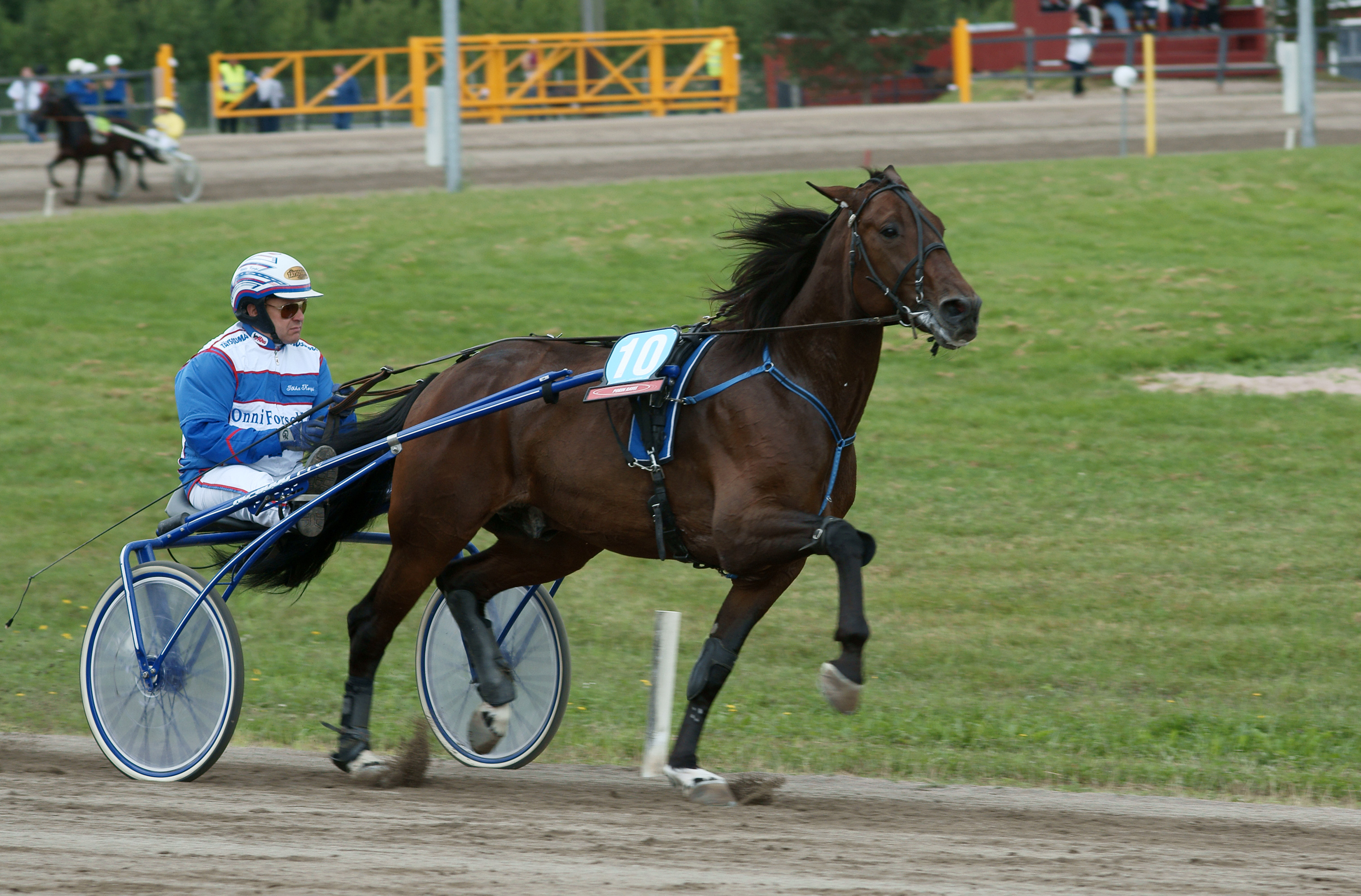 Ilkka Korpi harnessing Jim Småbo in Pori harness racing track.